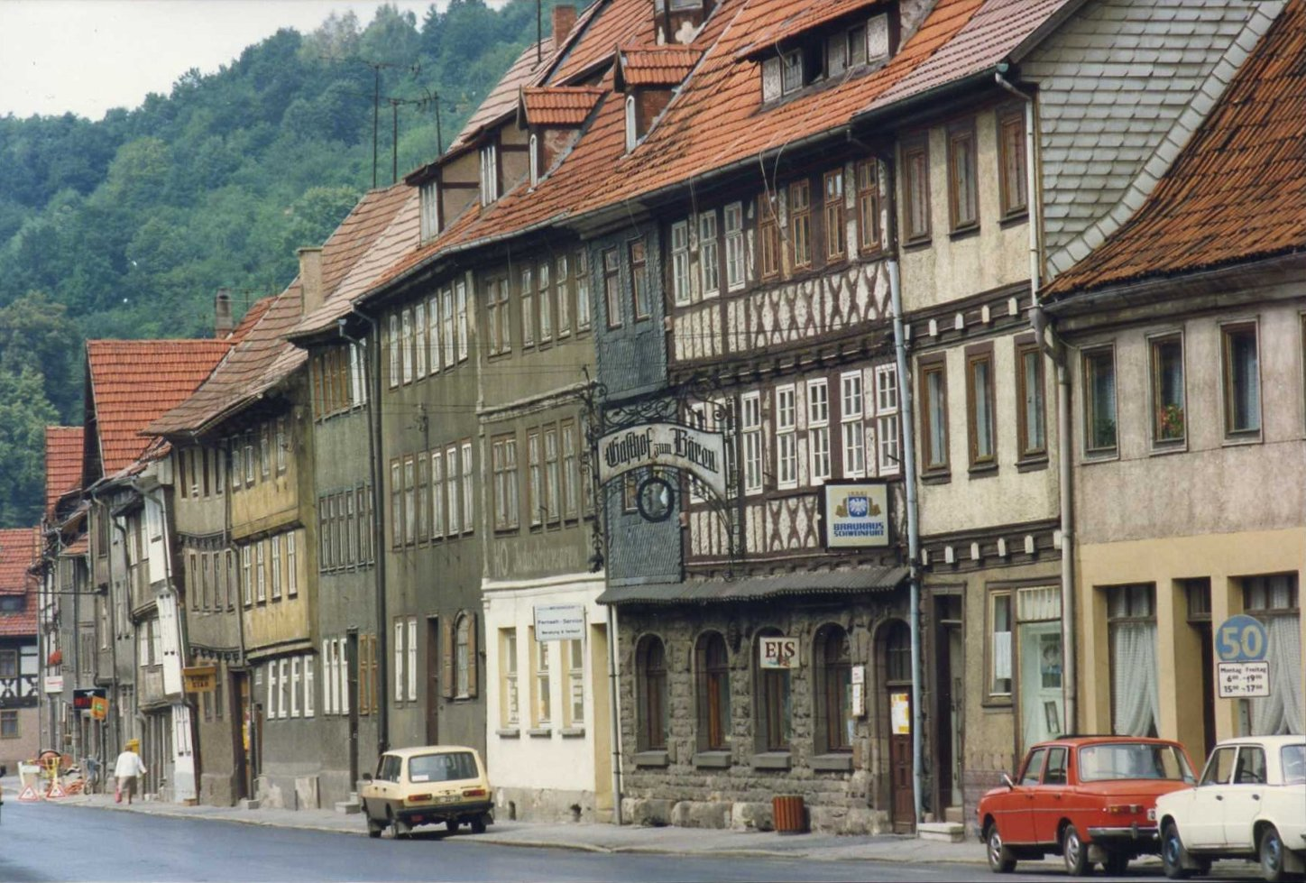 The HO Industriewairen and Wartburg estate can be seen from the other side. Here. (I will rescan it soon)